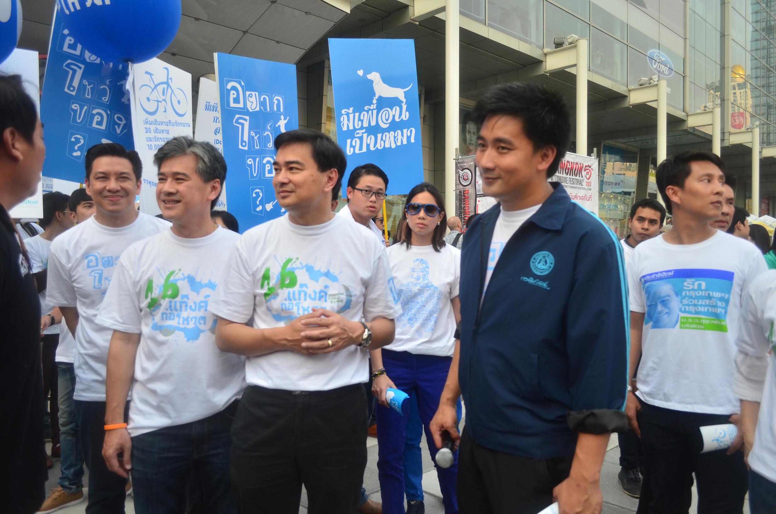 Apirak, Abhisit, Tankhun